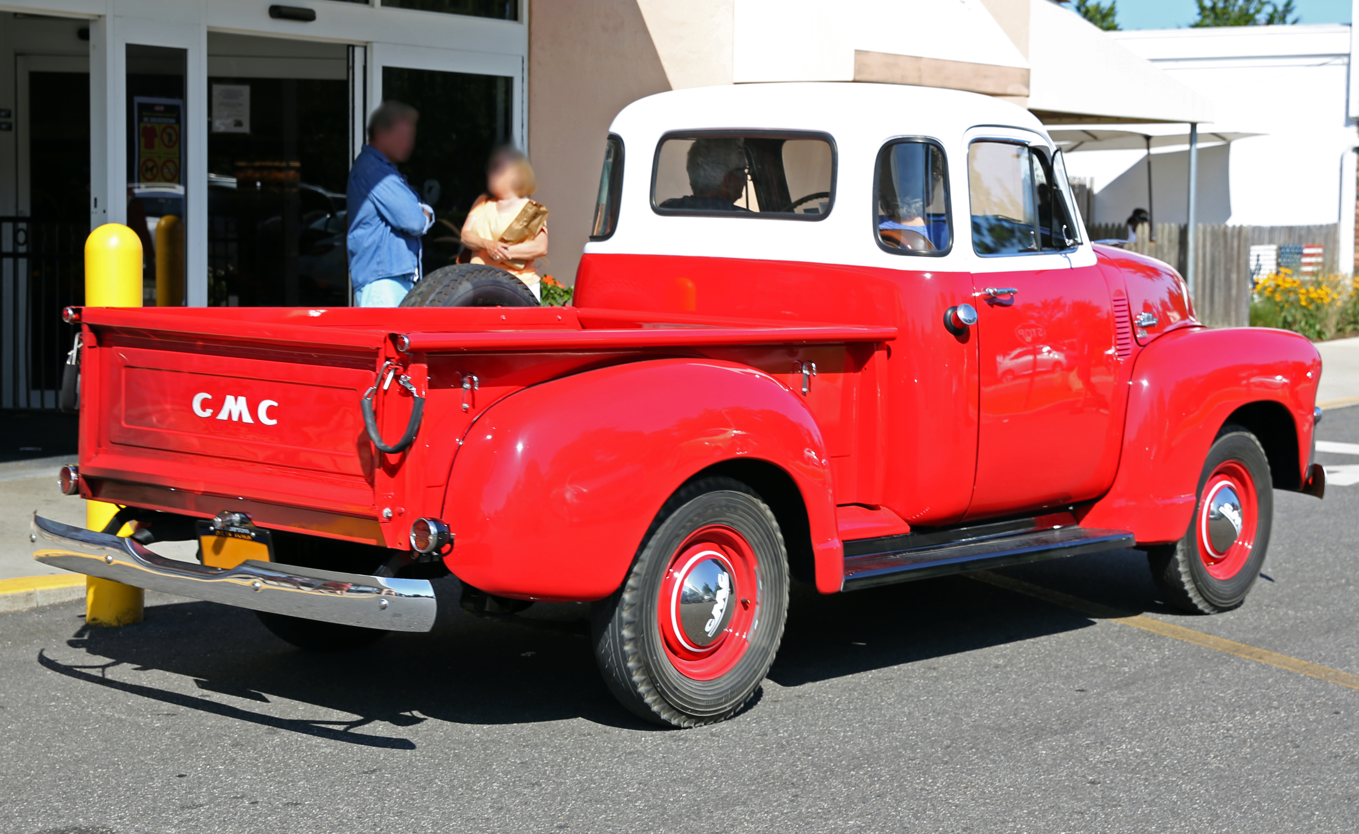 1954 GMC 100 truck in Amagansett, NY (Long Island).